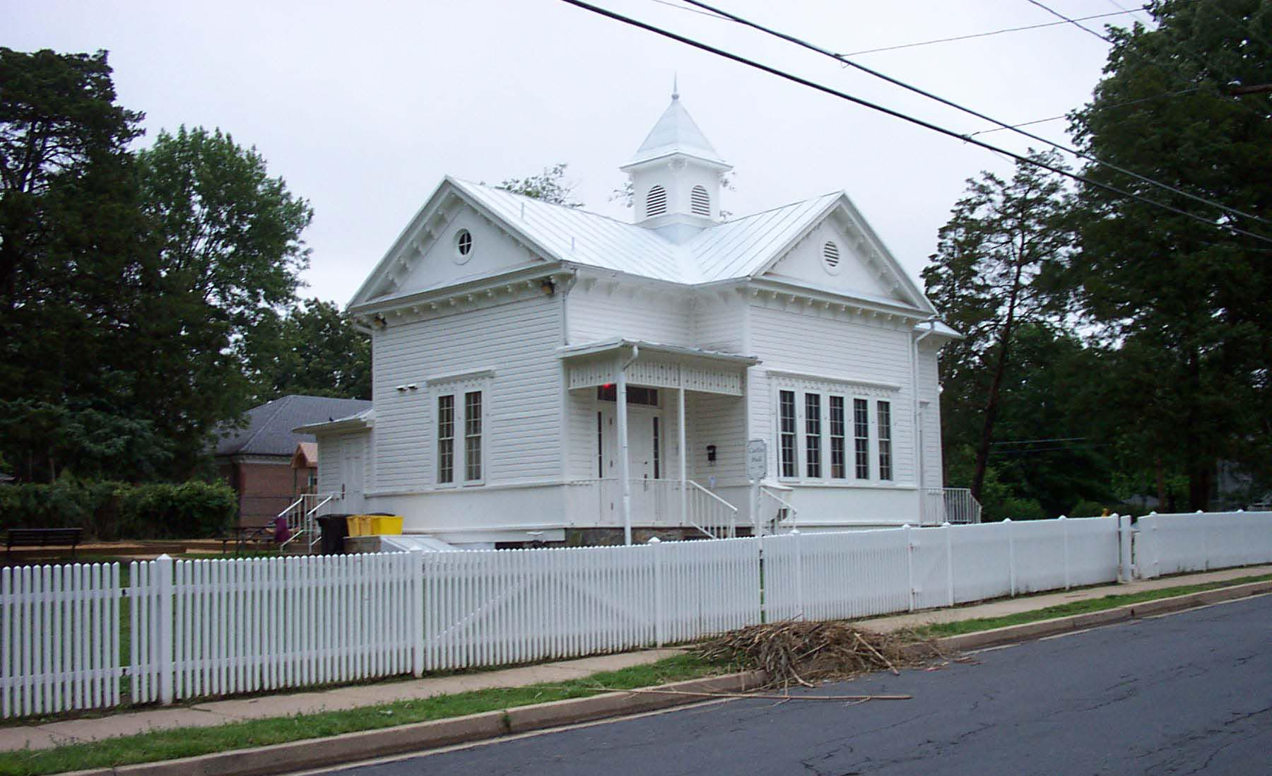 Carlin Hall (formerly Curtis Hall) in Glencarlyn, Arlington, Virginia.